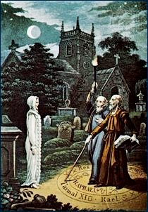 A magician raising a ghost. Illustration from Robert Cross Smith's The Astrologer of the Nineteenth Century (1825)